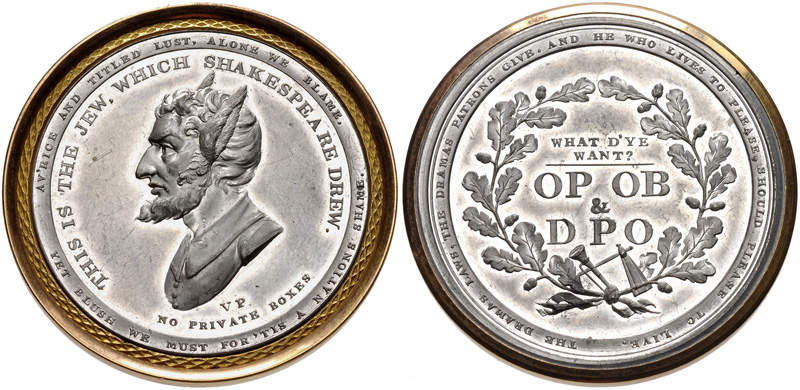 HANOVER. temp. George III. 1760-1820. WM Medal (45mm, 27.99 g, 12h). The Old Price Riots. Struck 1809. AV’RICE AND TITLED LUST, ALONE WE BLAME. YET BLUSH WE MUST FOR ‘TIS A NATIONS SHAME/ THIS IS THE JEW, WHICH SHAKESPEARE DREW, John Philip Kemble as Shylock in the Merchant of Venice; below, V.P./ (Vox Populi)/ NO PRIVATE BOXES / THE DRAMAS LAWS, THE DRAMAS PATRONS GIVE, AND HE WHO LIVES TO PLEASE, SHOULD PLEASE TO LIVE., WHAT D’YE/ WANT?/– / OP OB/ &. D P O (Old Prices, Open Boxes, and Deference to Public Opinion); all within wreath, trumpet and rattle at ties.